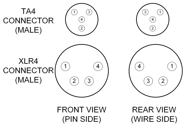 Types of connectors used with AMX192